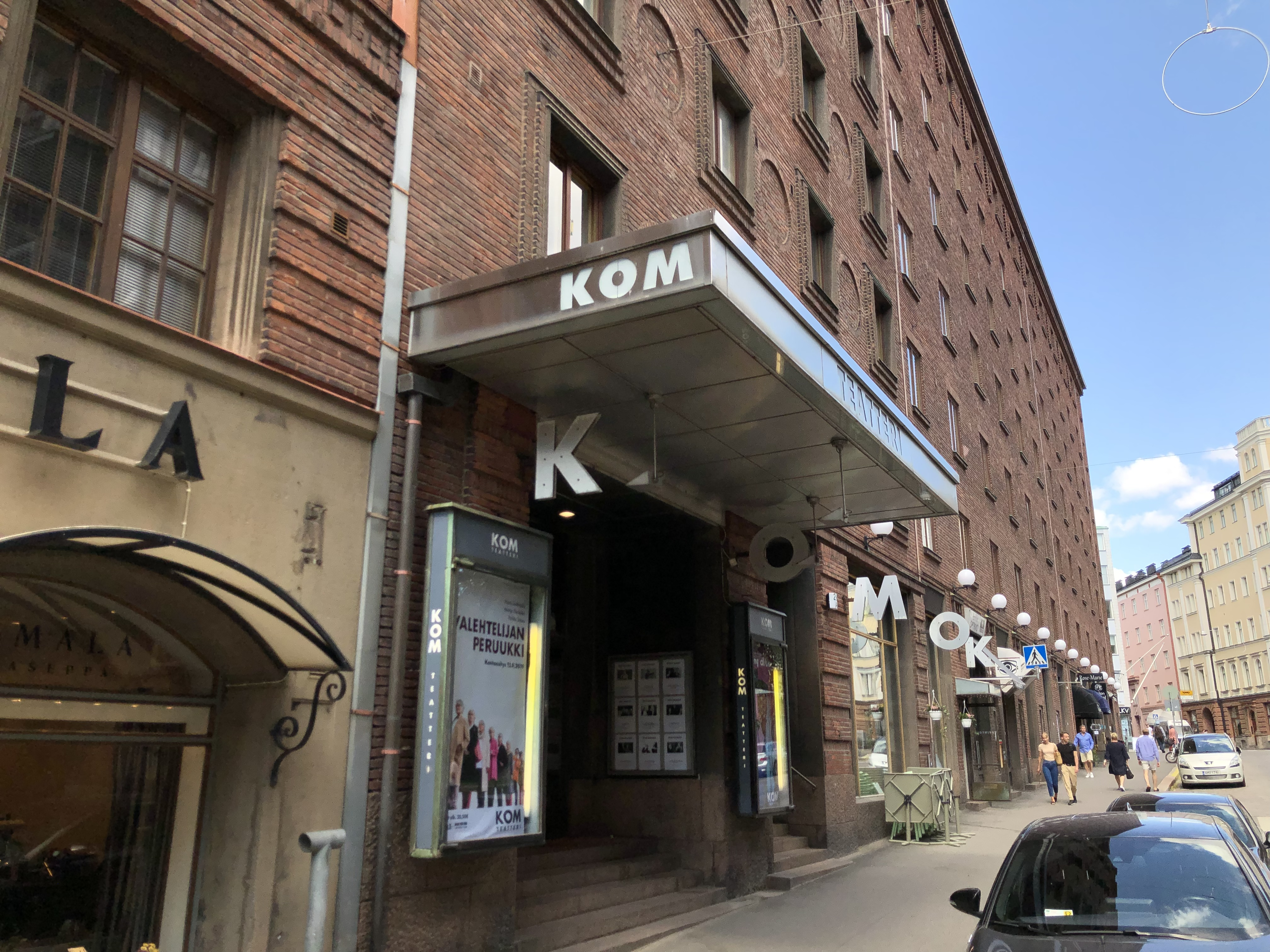 Kom-teatteri in 2019.